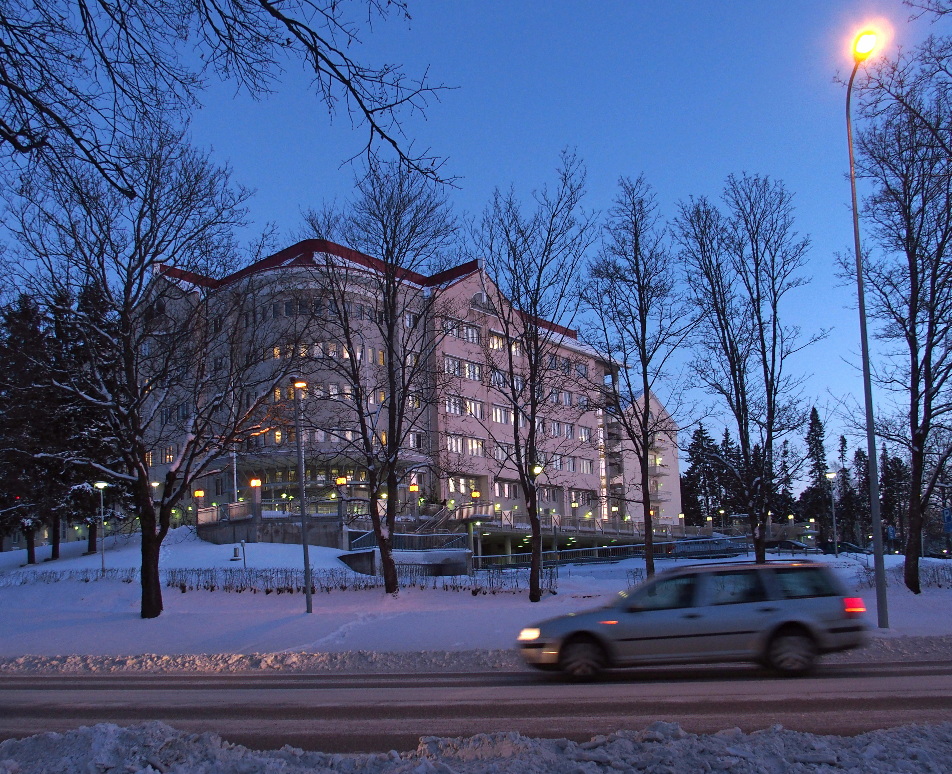 TYKS Surgical hospital, corner of Kunnallissairaalantie and Luolavuorentie. Sigge architects, 1997. Parts of municipal Turku city hospital are located in the same building.